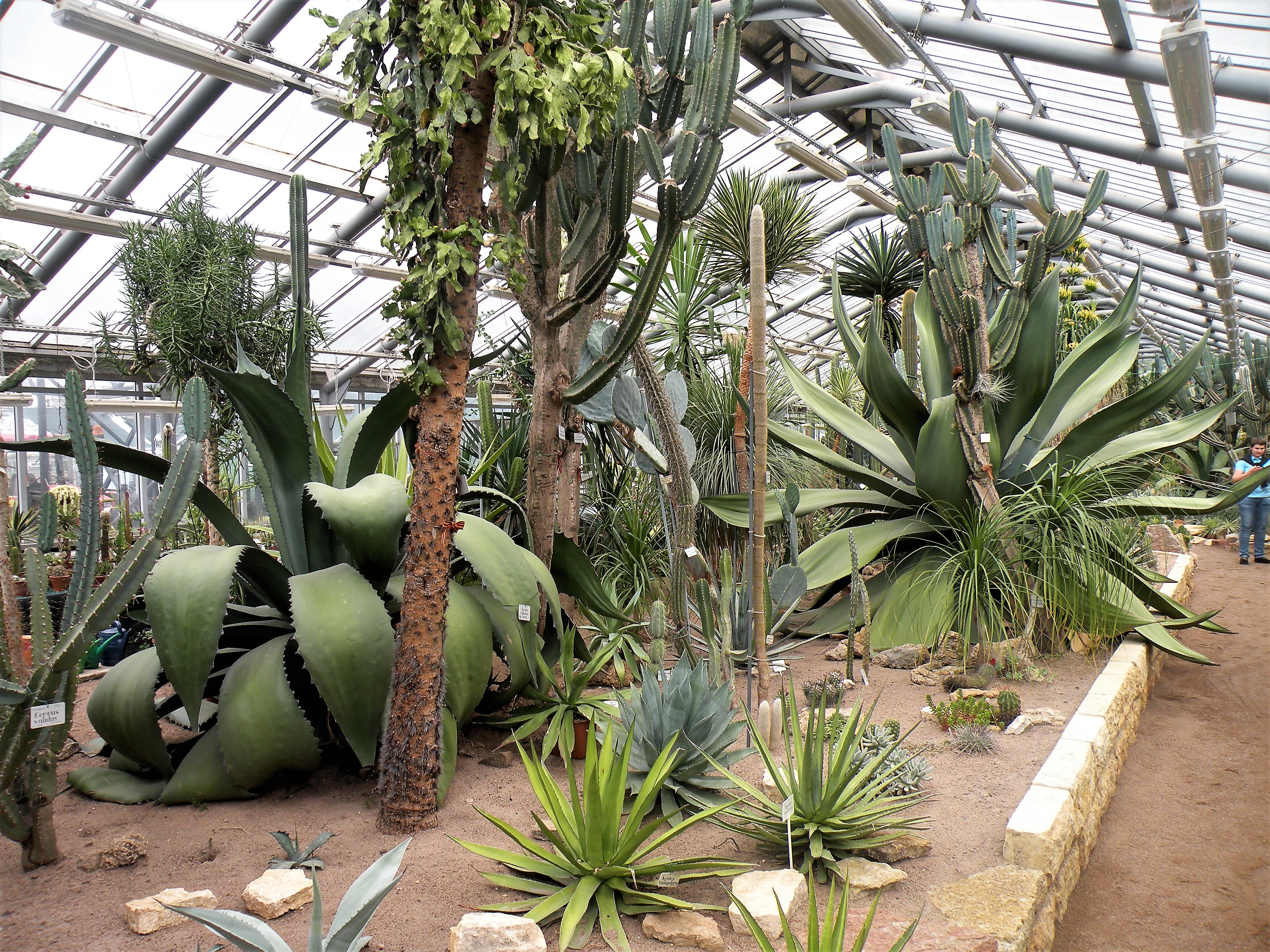 Orangery of the Botanical garden in St. Petersburg